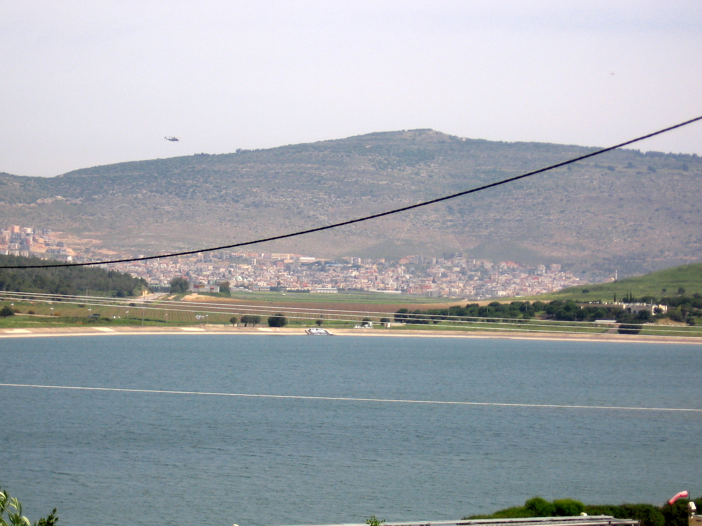 Eshkol water resevoir and Kfar Manda